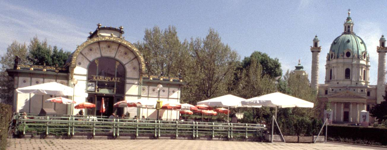 Austria, Vienna, St. Charles's Church